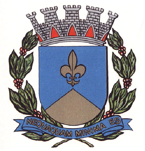 Coat of Arms of the city of Descalvado, São Paulo state, Brazil.